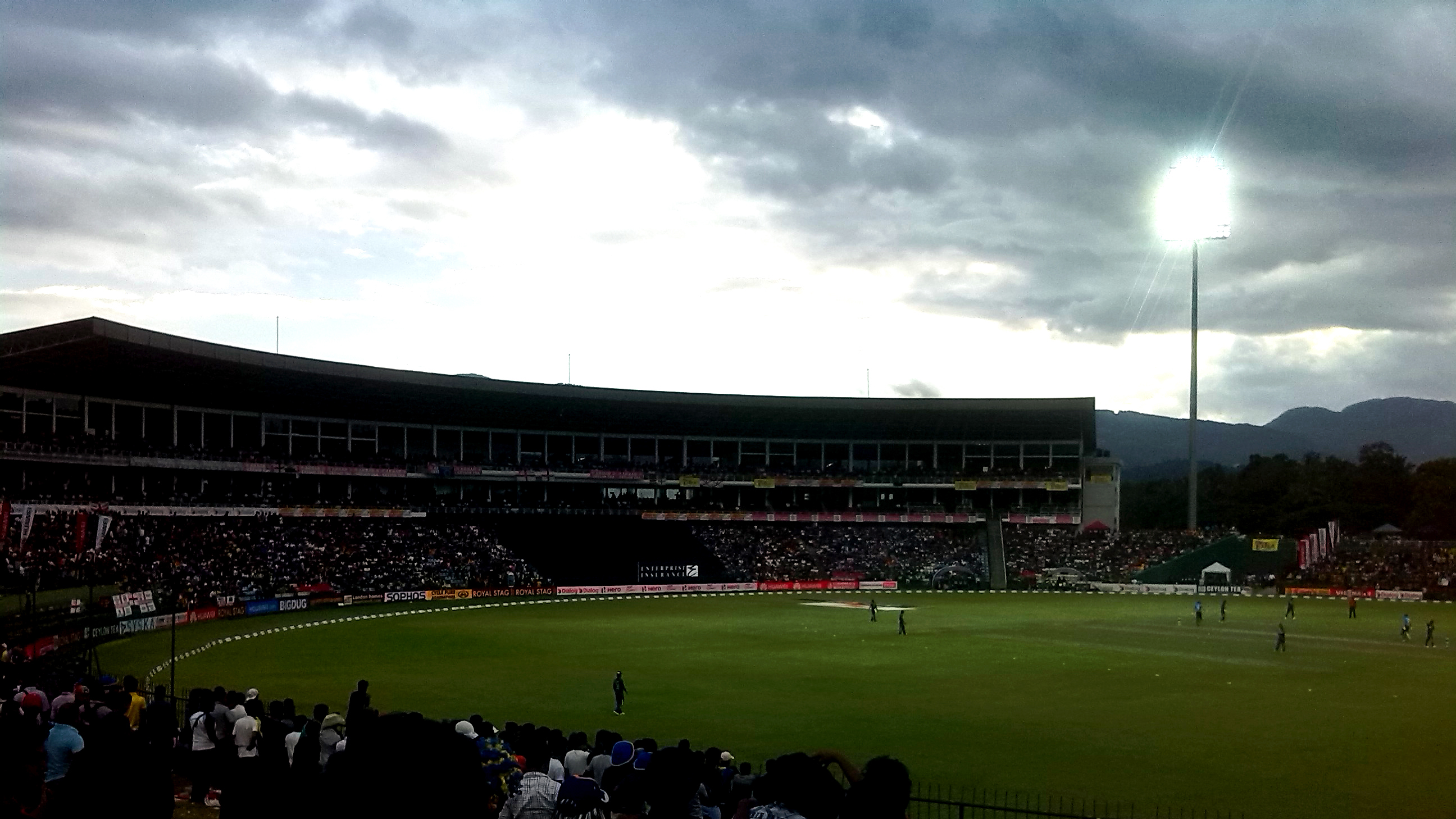 Match between Sri Lanka and England on 13 December 2014